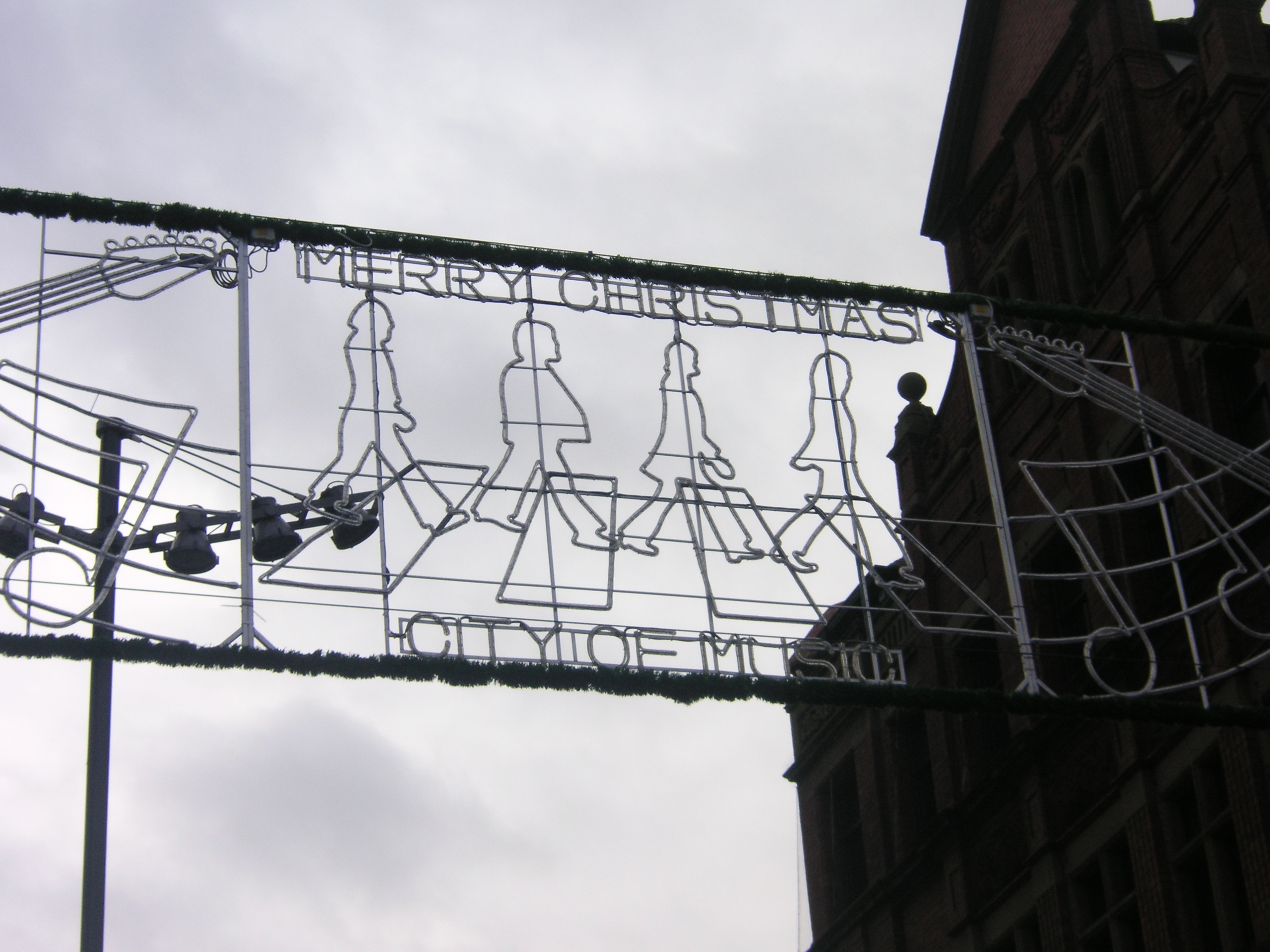 Merry Christmas - City of Music in Liverpool, (see Abbey Road)